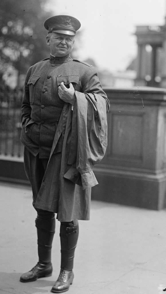 Title: CASTNER, JOSEPH C., MAJOR, U.S.A. Abstract/medium: 1 negative : glass ; 5 x 7 in. or smaller